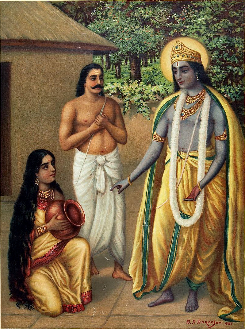 One of Srikrishna's Miracles Object type Print Artist/maker/manufacturer Banerjee, B. P. Culture South India Place made Germany Location Not on display Object Number Cg69